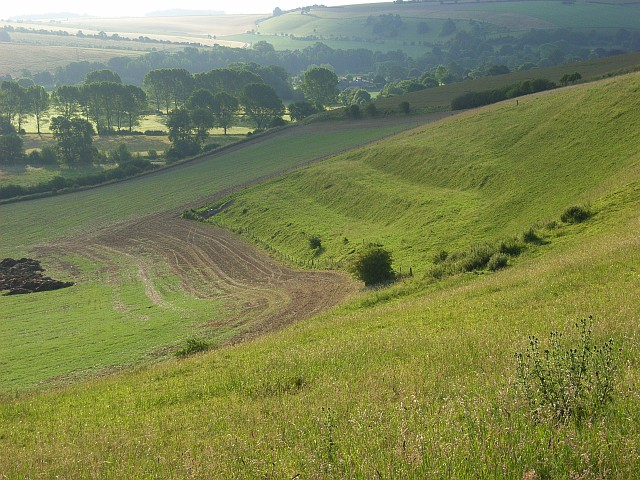 Downland, Great Wishford. The northern flank of Ebsbury Hill with strip lynchets. The trees below are on the Wylye floodplain, between the two channels of the river.